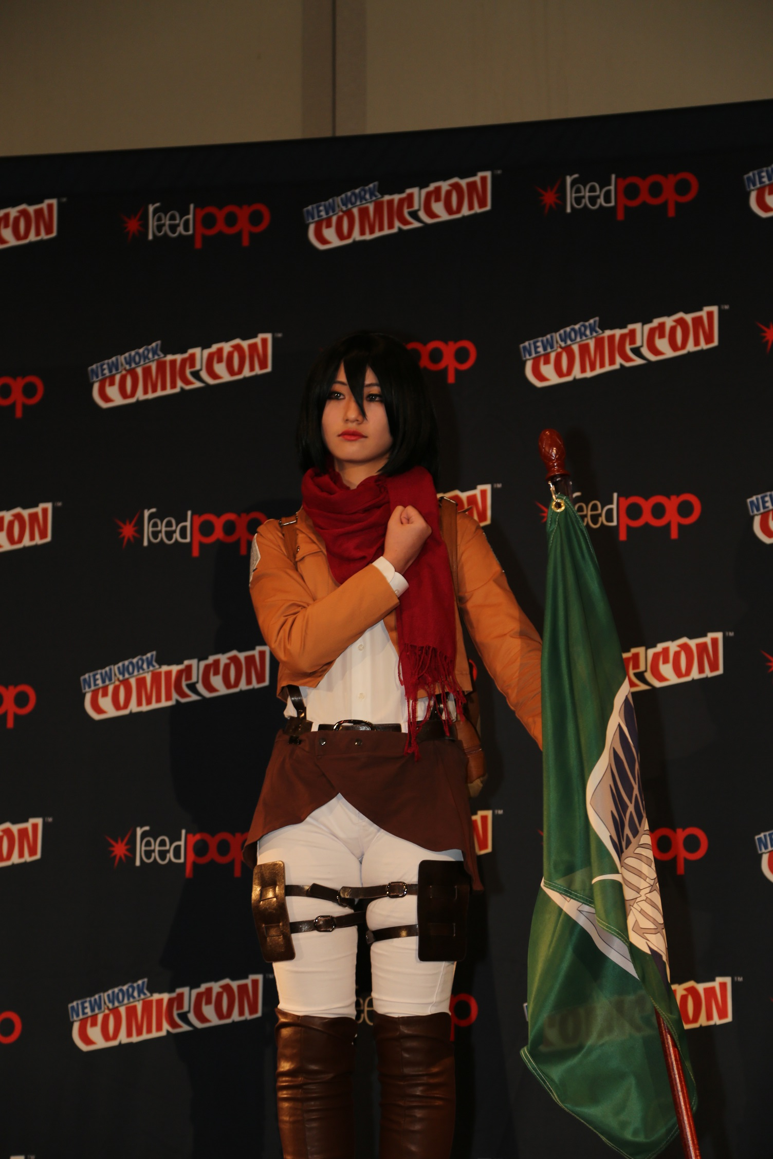 Cosplayer of Mikasa Ackerman from Attack on Titan at New York Comic Con 2013.